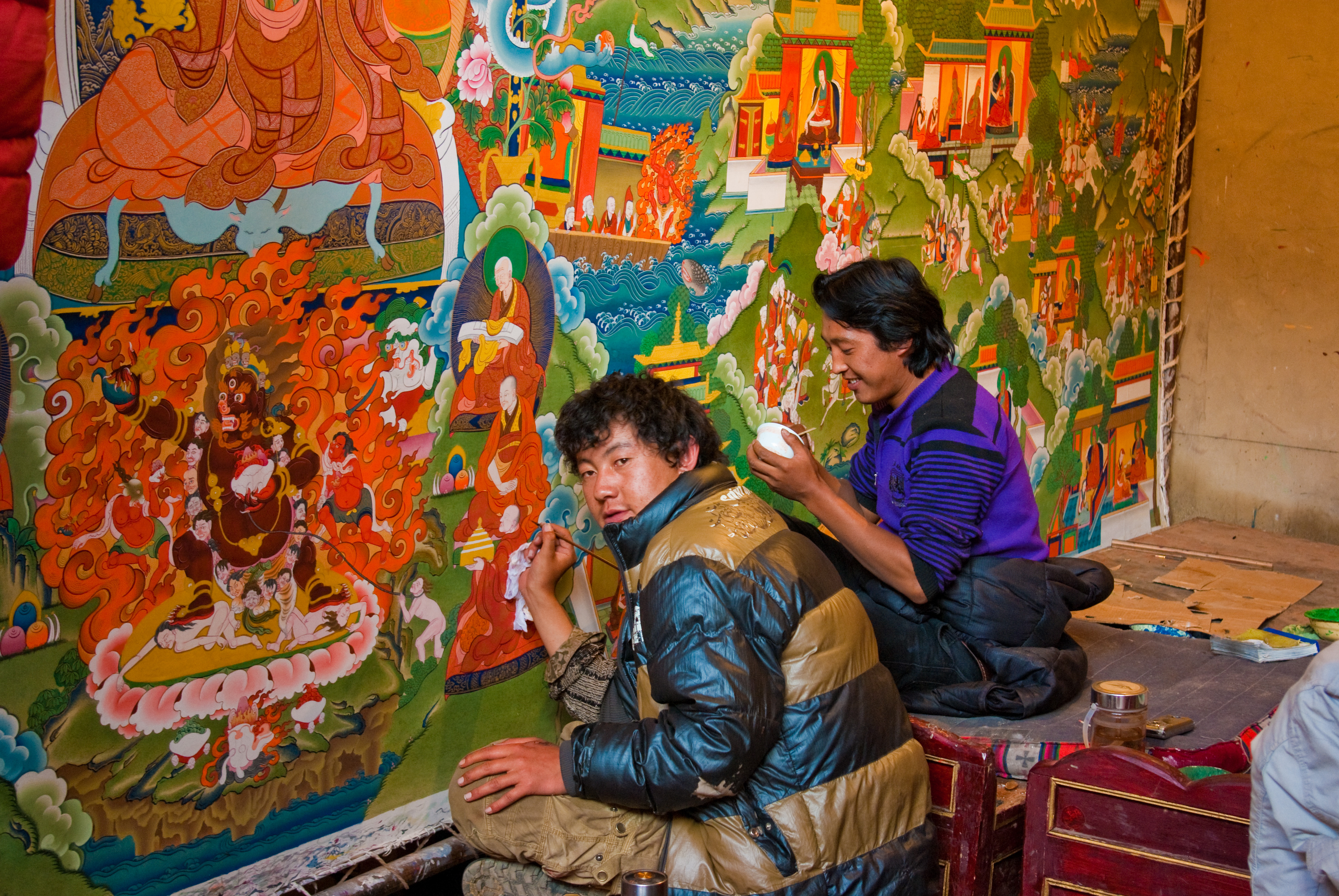 Reting monastery